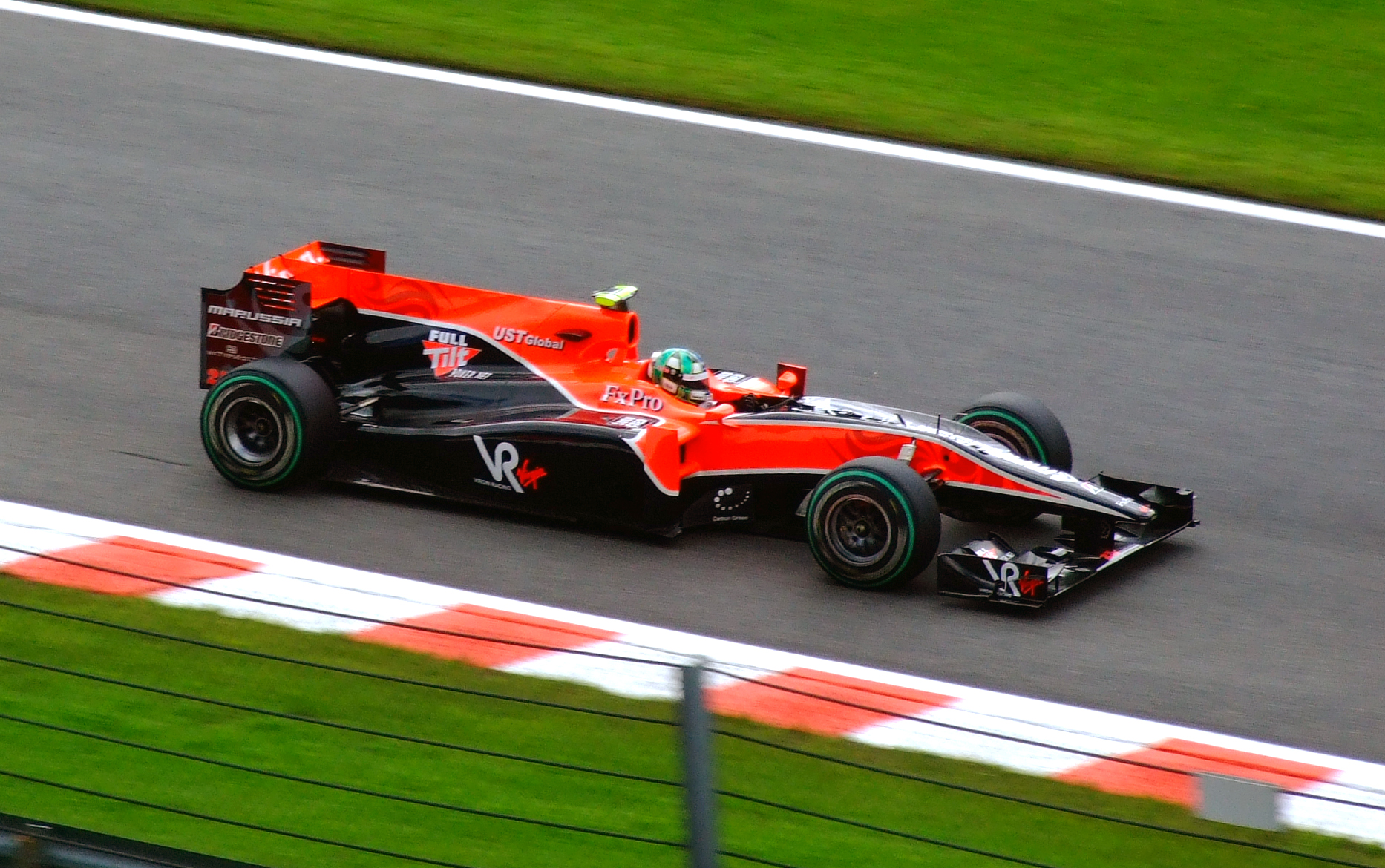 Lucas Di Grassi, Virgin Racing VR-01, entering Pouhon, Spa-Francorchamps, Second Practice, 2010 Belgian Grand Prix.